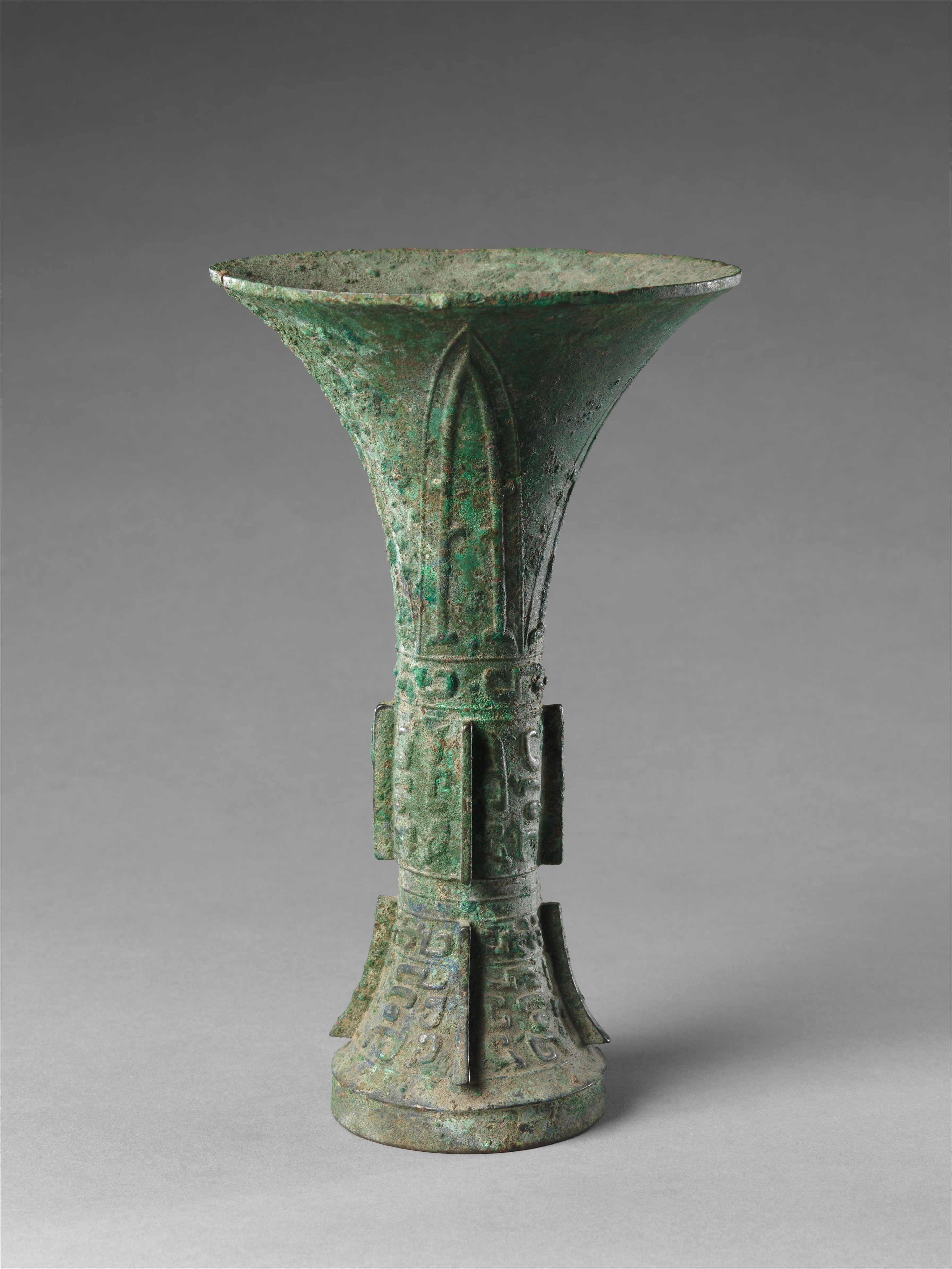 China; Wine beaker; Metalwork